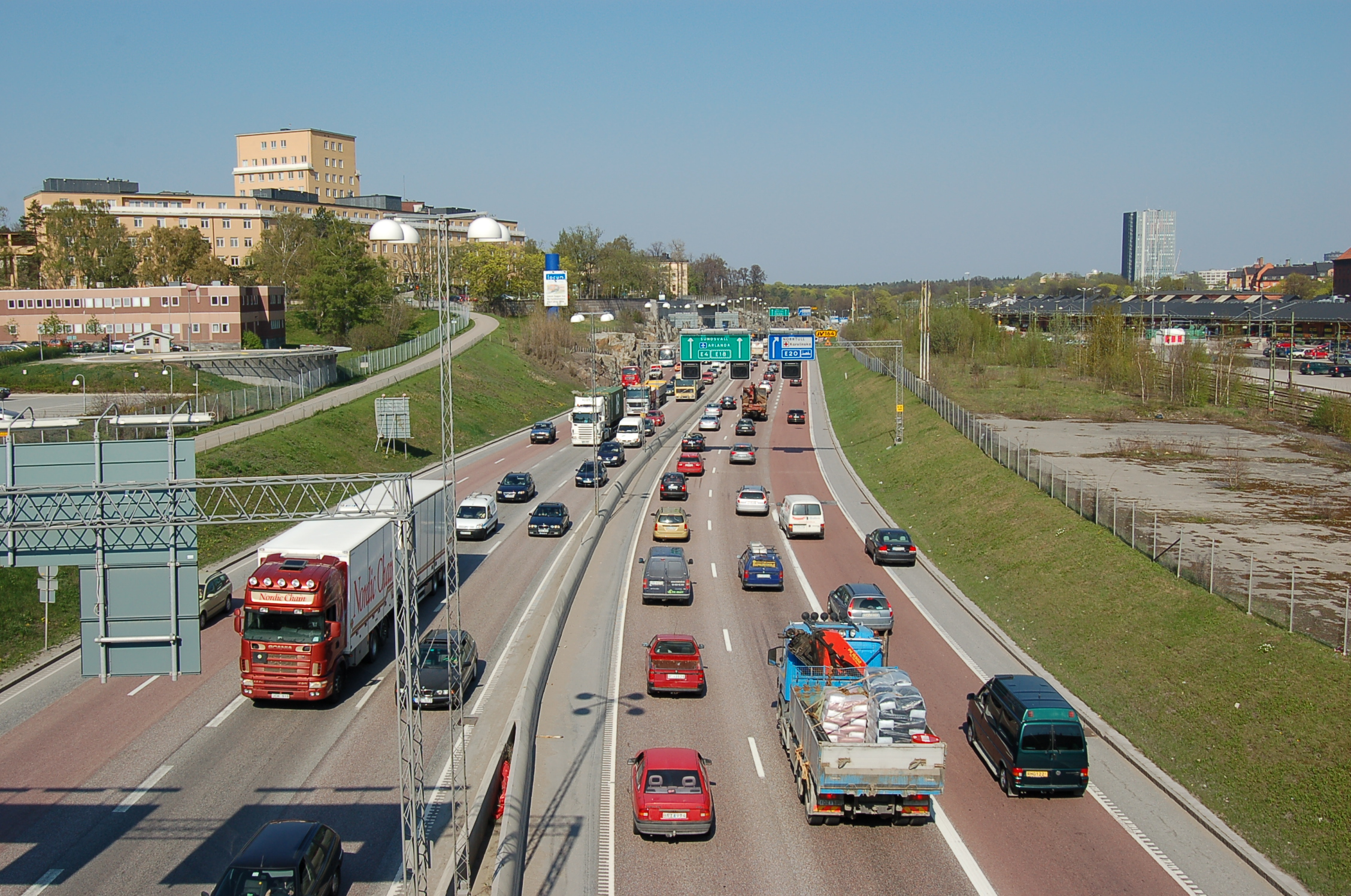 Norra länken motorway (E4/E20) in Stockholm, Sweden